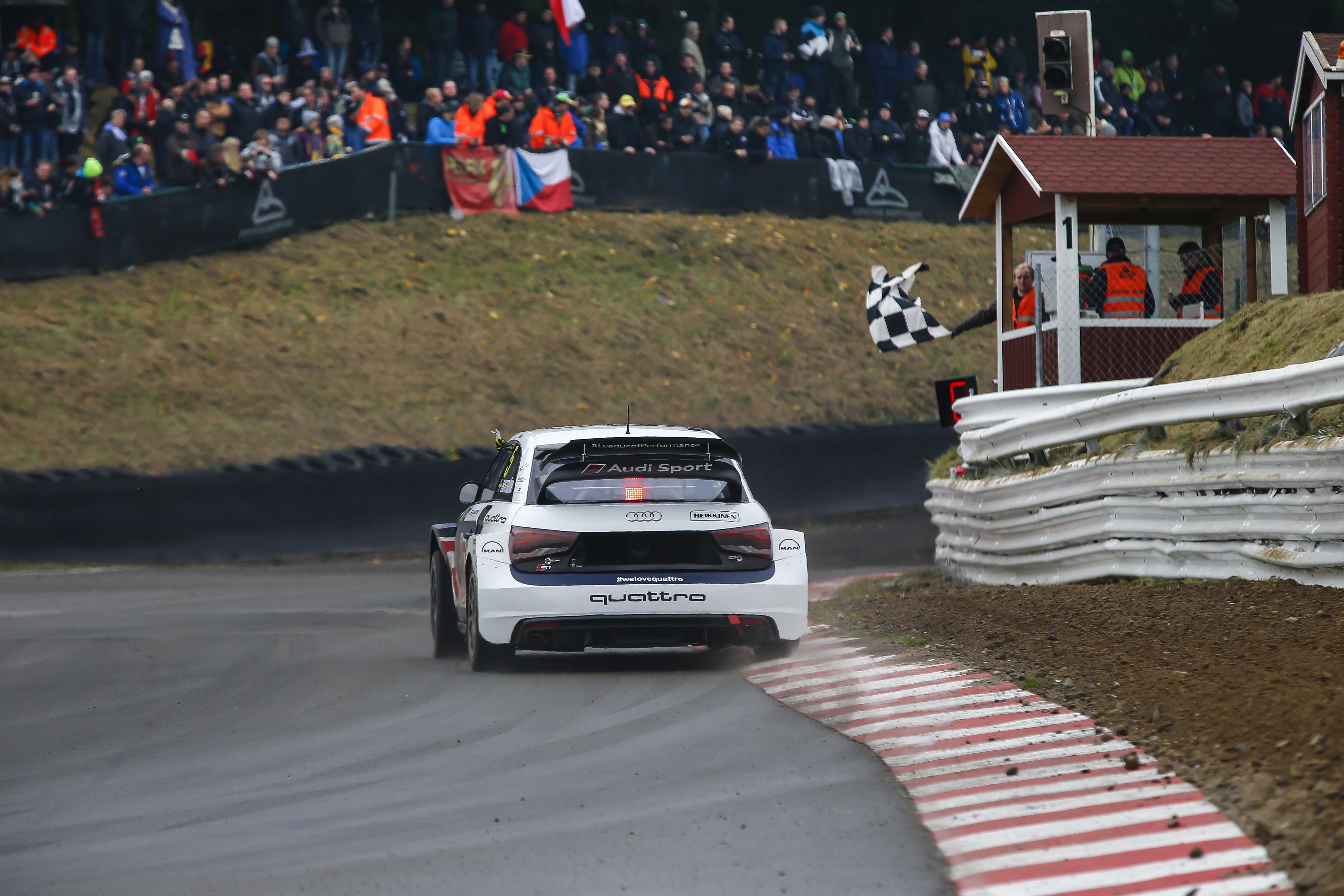 2016 FIA World RX Rallycross Championship / Round 11 / Buxtehude, Germany / October 14-16, 2016 // Worldwide Copyright:Colin McMaster/EKS/McKlein